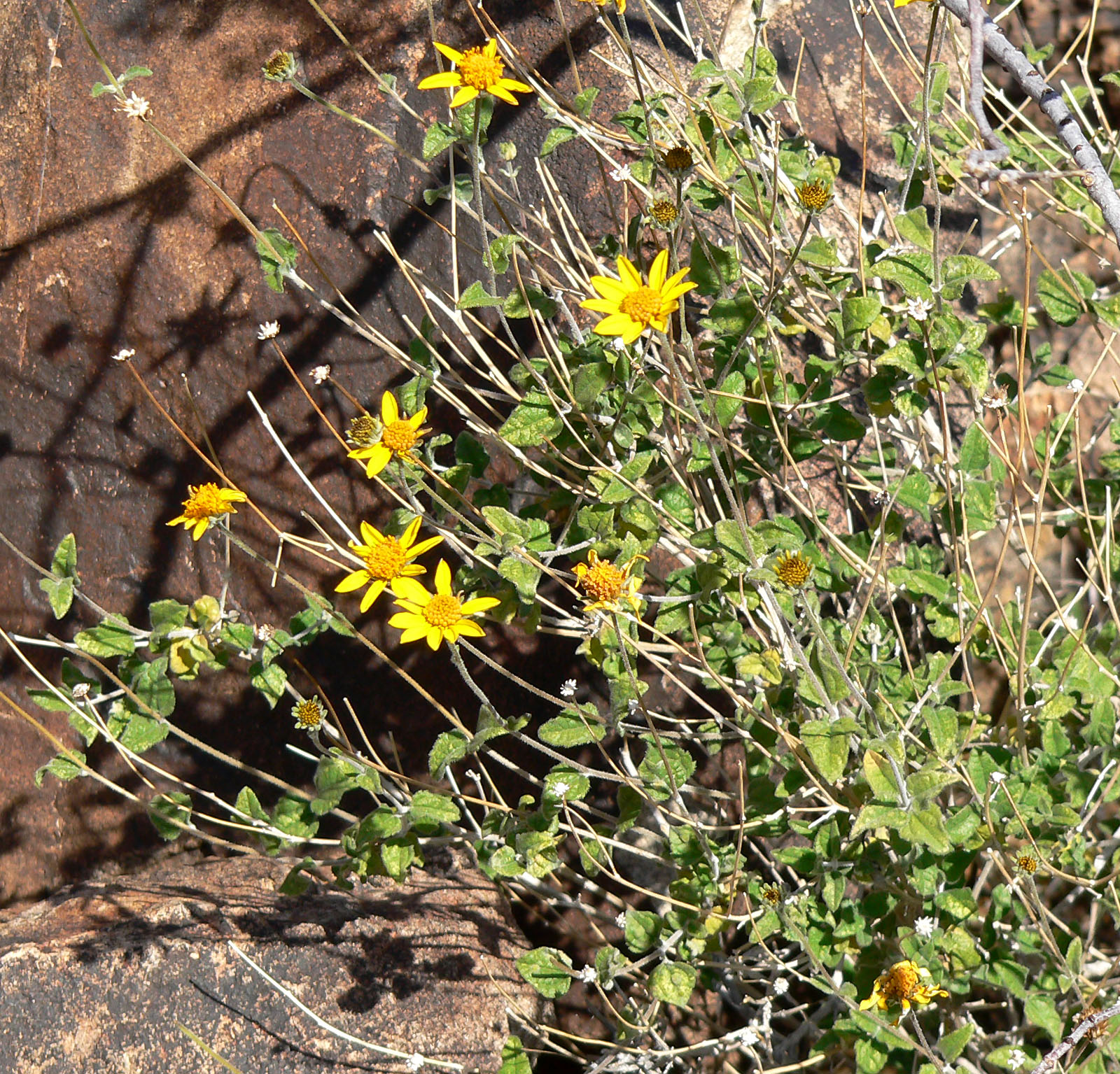 Bahiopsis parishii on Mount Wilson (Arizona), northwestern Arizona